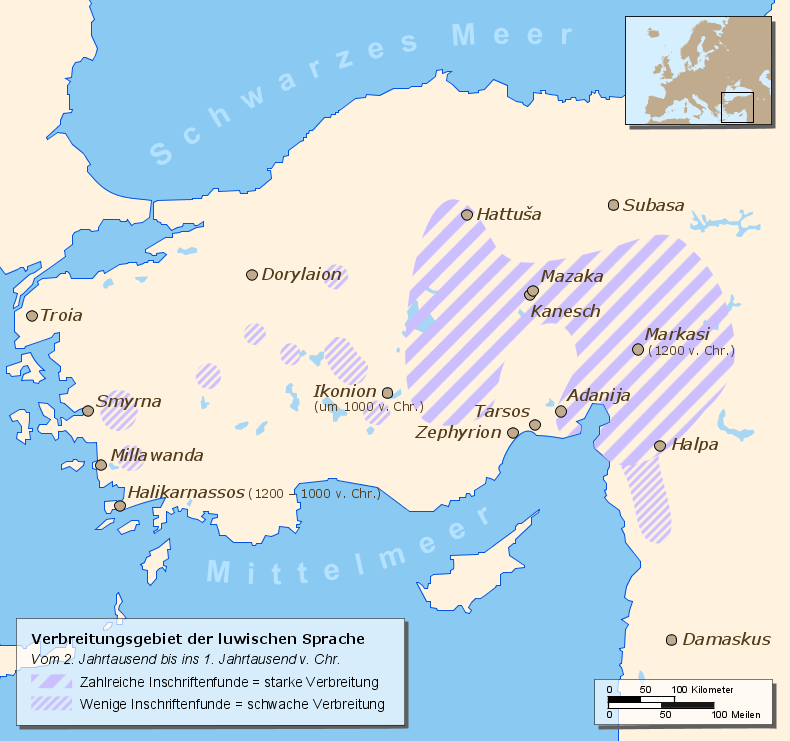 Map of a part of Eastern Europe/Asia with spreading of the Luwian Language